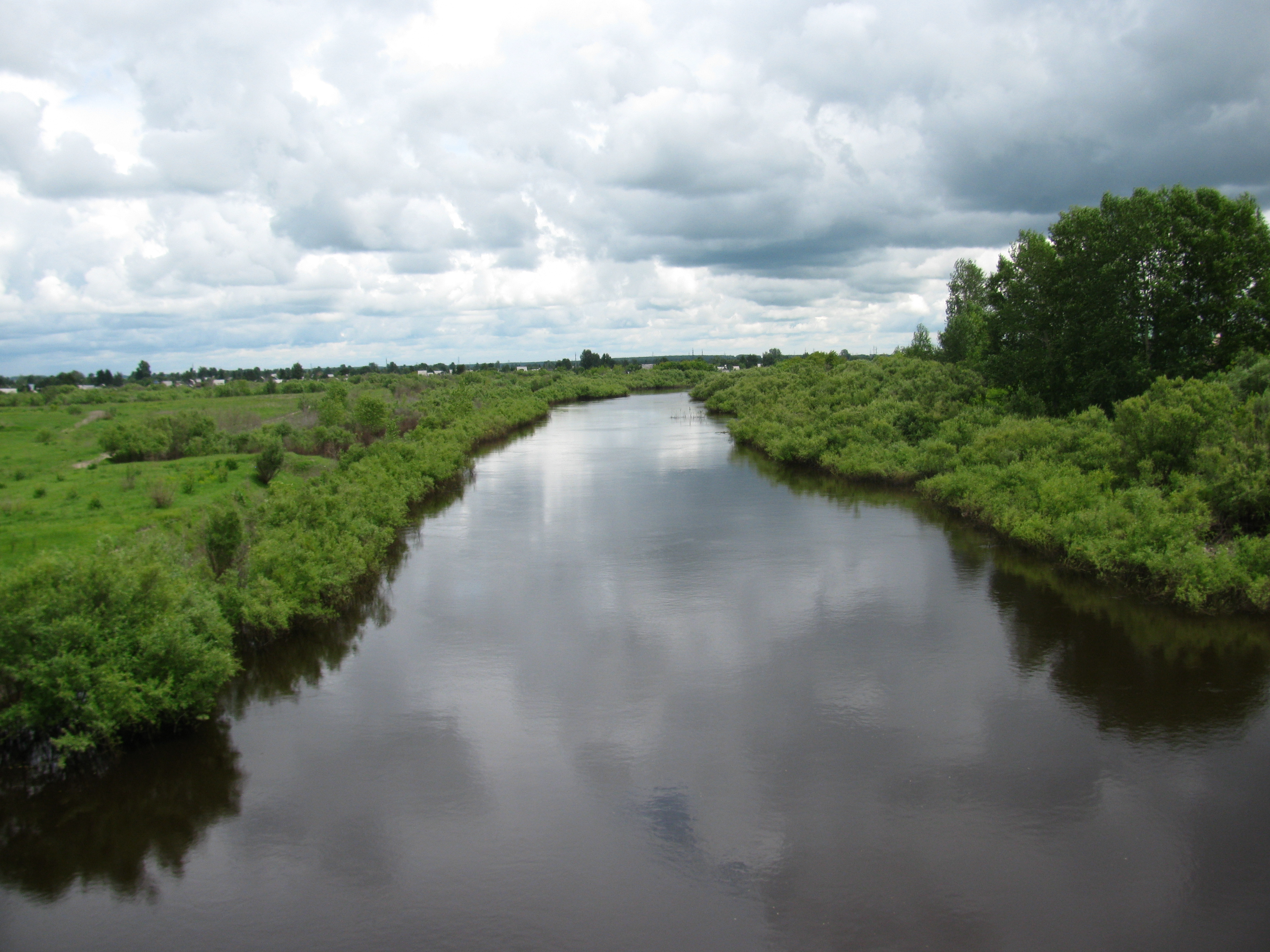 Om river, Kuybyshev